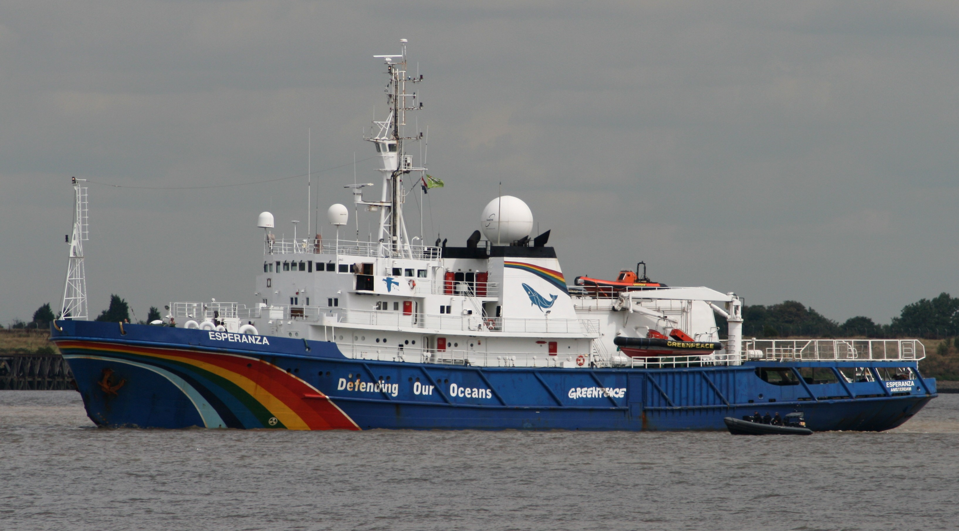 The Greenpeace ship "Esperanza" in the River Thames off Gravesend inward bound for West India Dock, London.